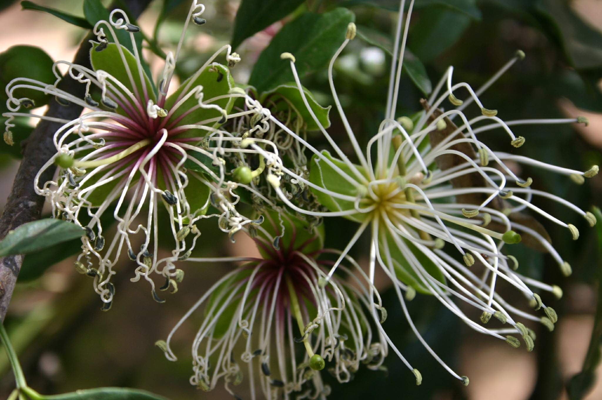 Fresh and old flowers of Maerua cafra (DC.) Pax, Johannesburg, South Africa